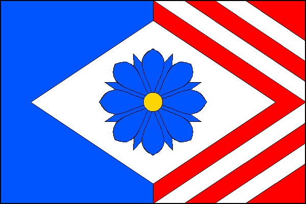 Municipal flag of Nemotice village, Vyškov District, Czech Republic.